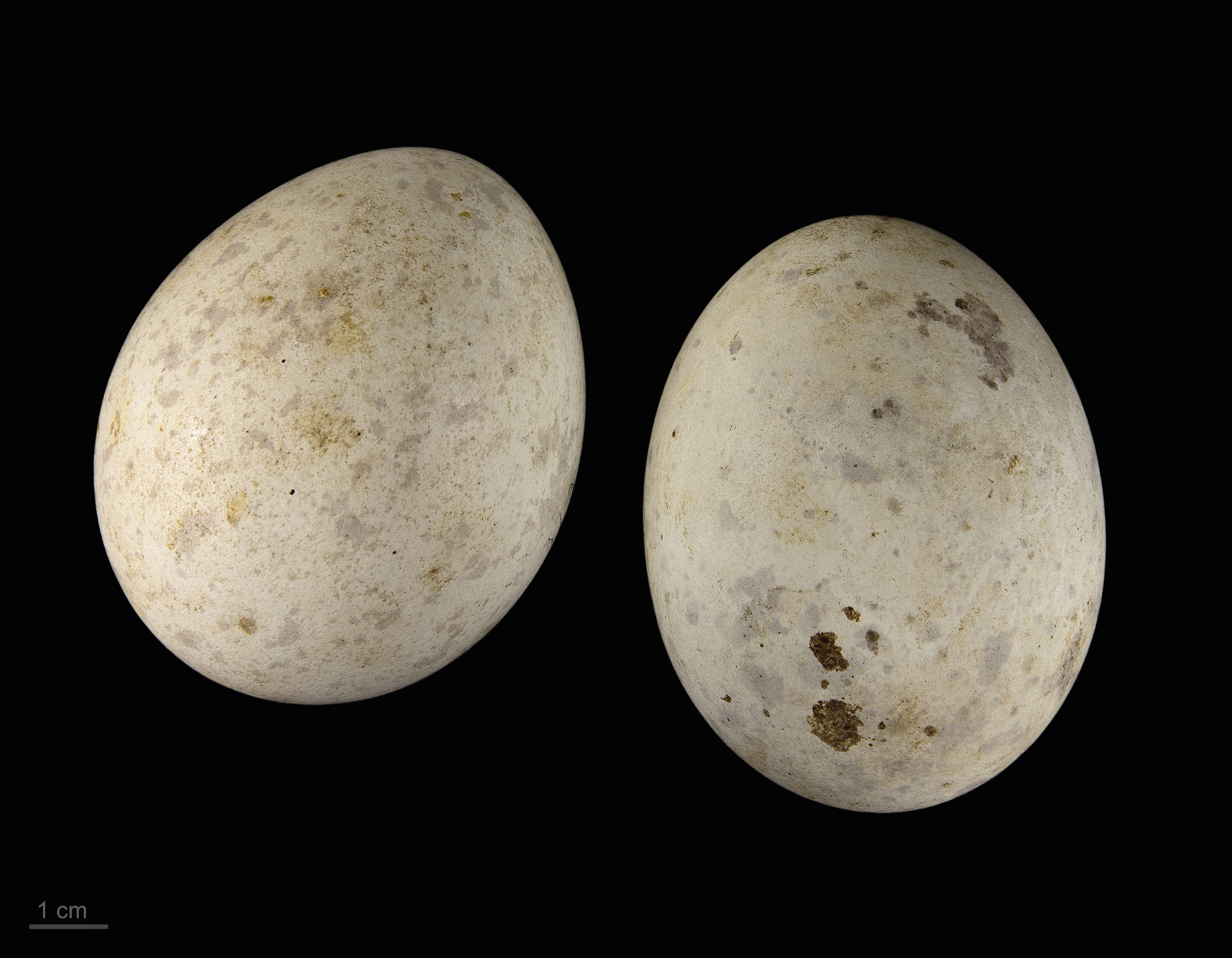 Eggs of greater spotted eagle Two specimens of the same spawn ; collection of Jacques Perrin de Brichambaut.